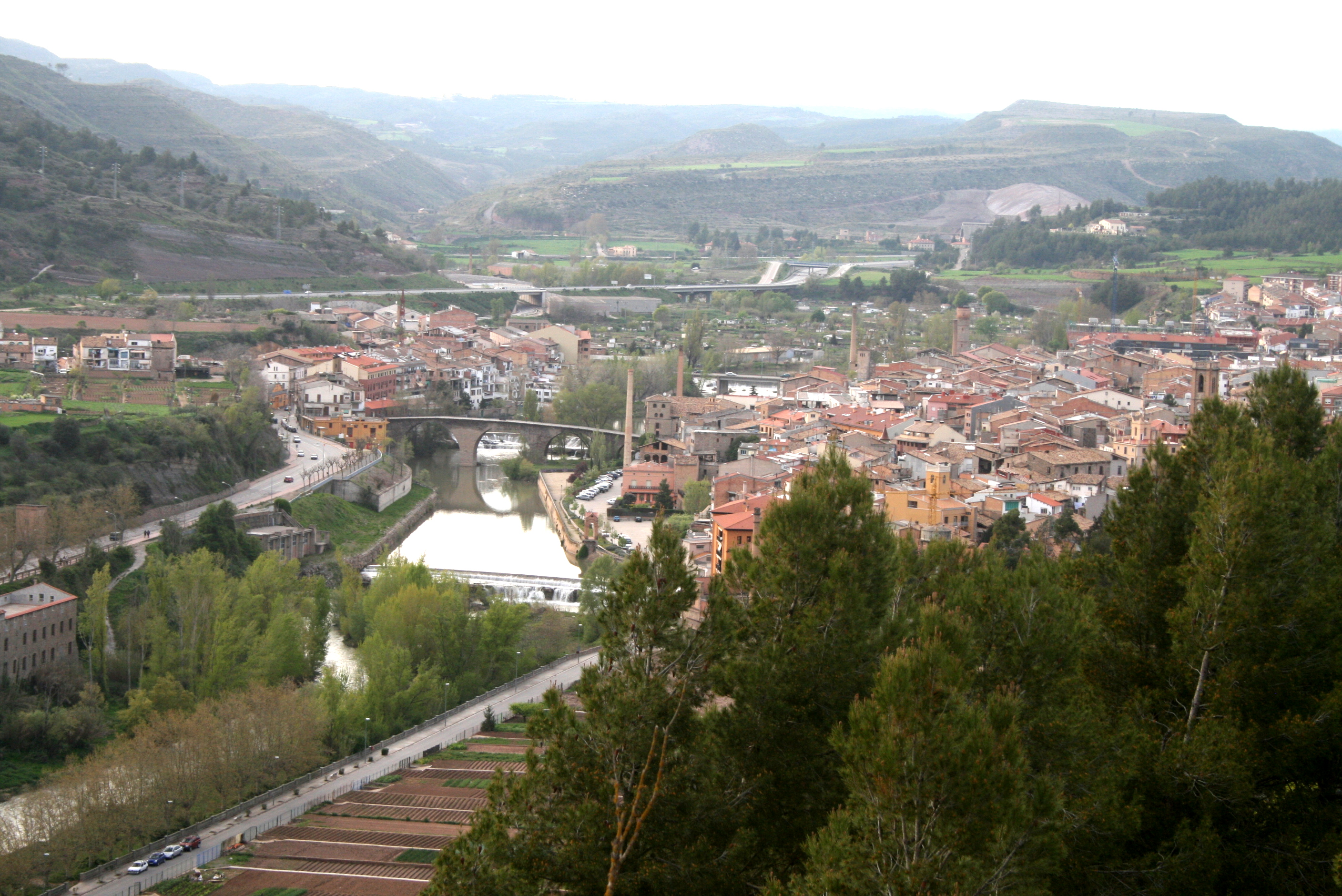 Sallent from the Castle